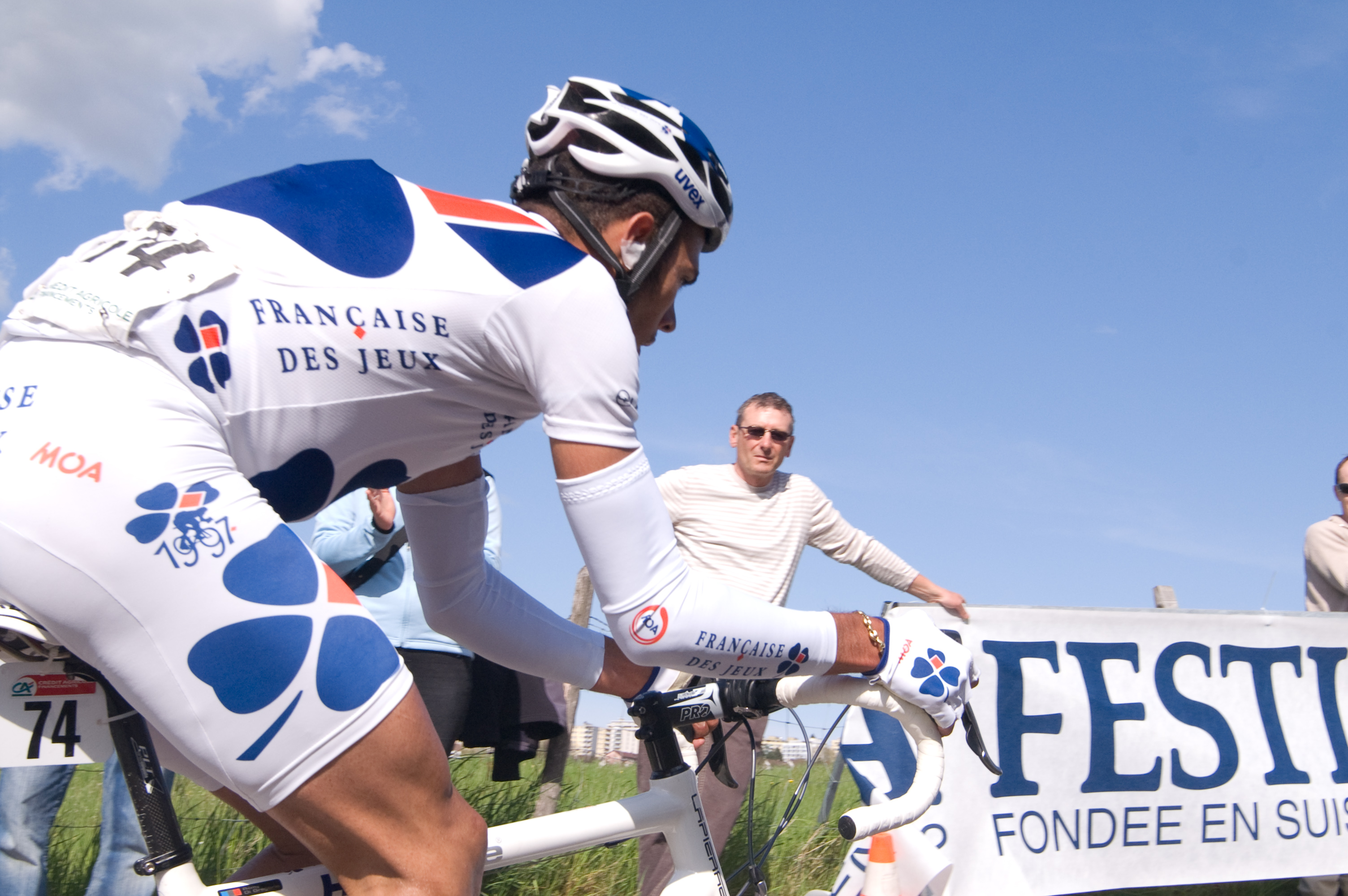 2nd stage of the Tour de Romandie 2008.